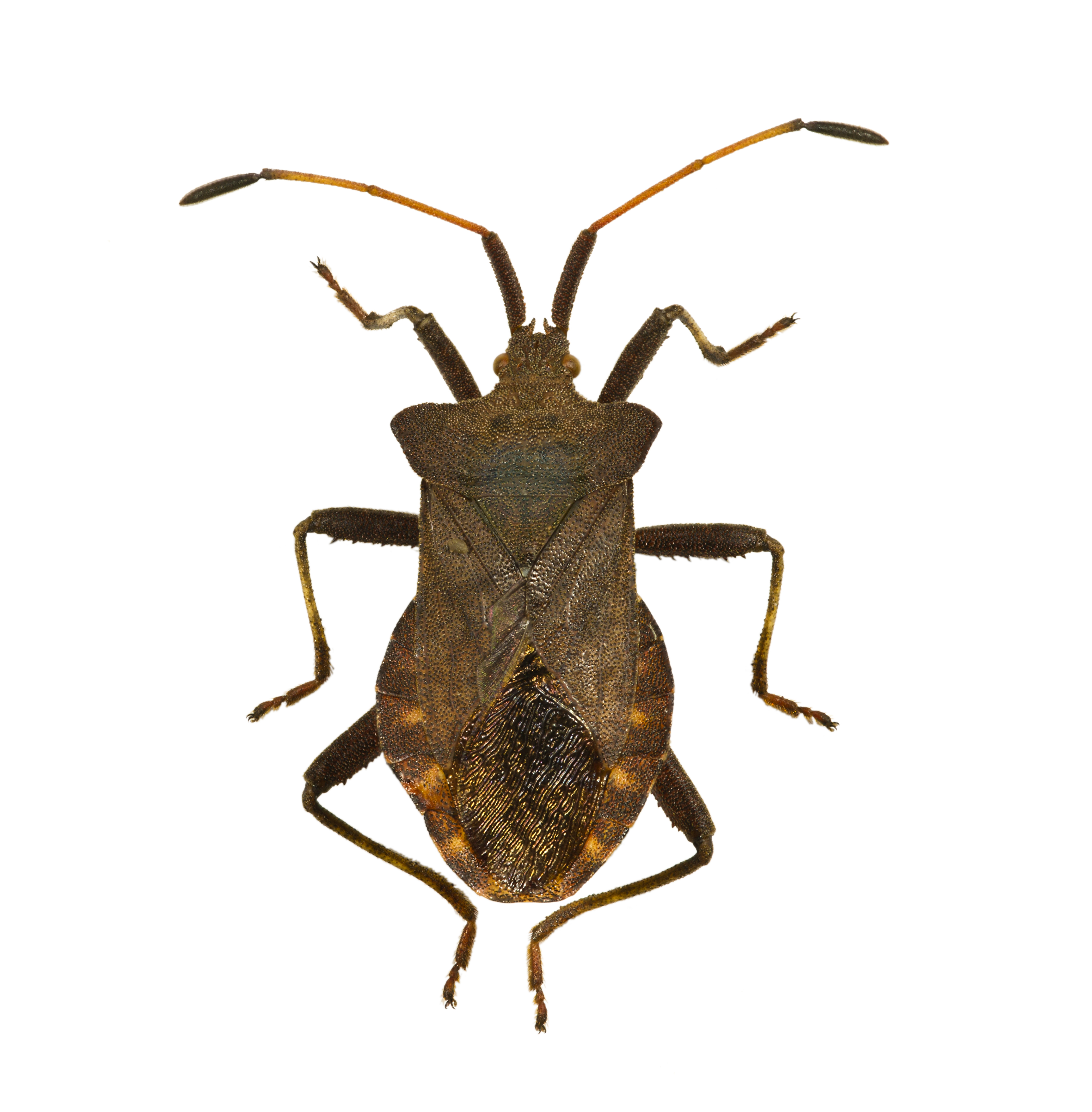 Dock bug. Dorsal view of adult. Locality: Fronton, Midi-Pyrénées, France Size : (antennae and legs off) : 14 mm.